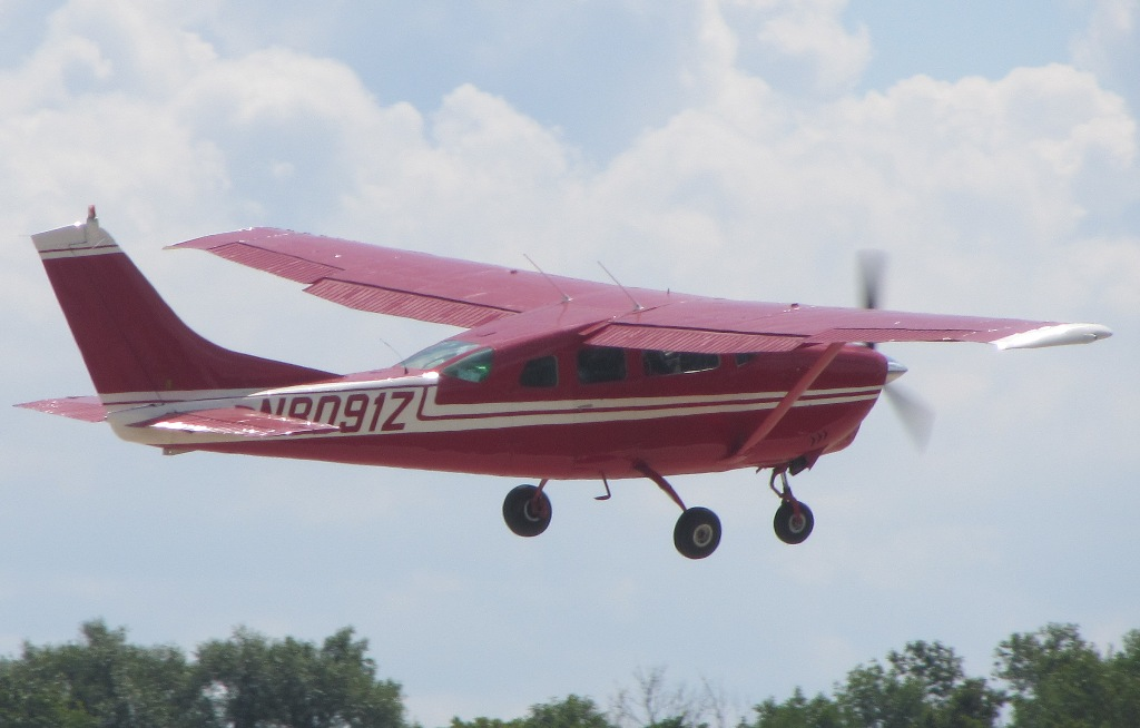 Cessna 206